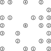 Val42-Bridge1n